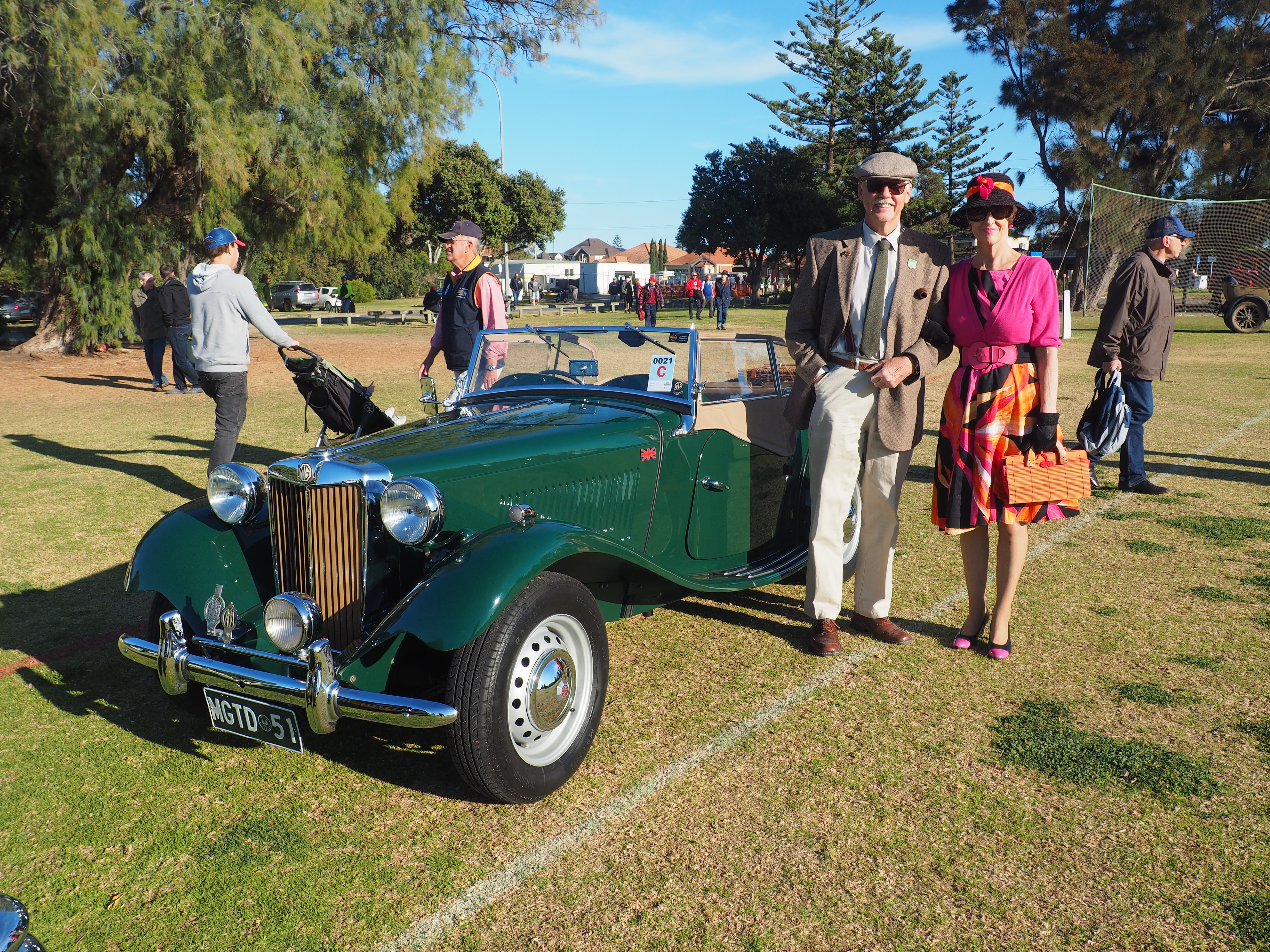 The 2018 Bay to Birdwood Start was held at Barratt Reserve on September 30. The 2018 Run saw vehicles manufactured prior to 1956 travel from West Beach to Birdwood.